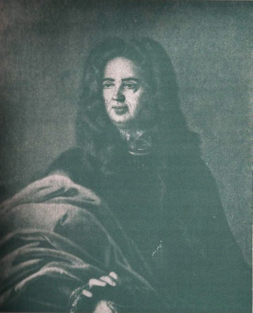 Manuel Teles da Silva, 3rd Marquis of Alegrete (1682-1736)